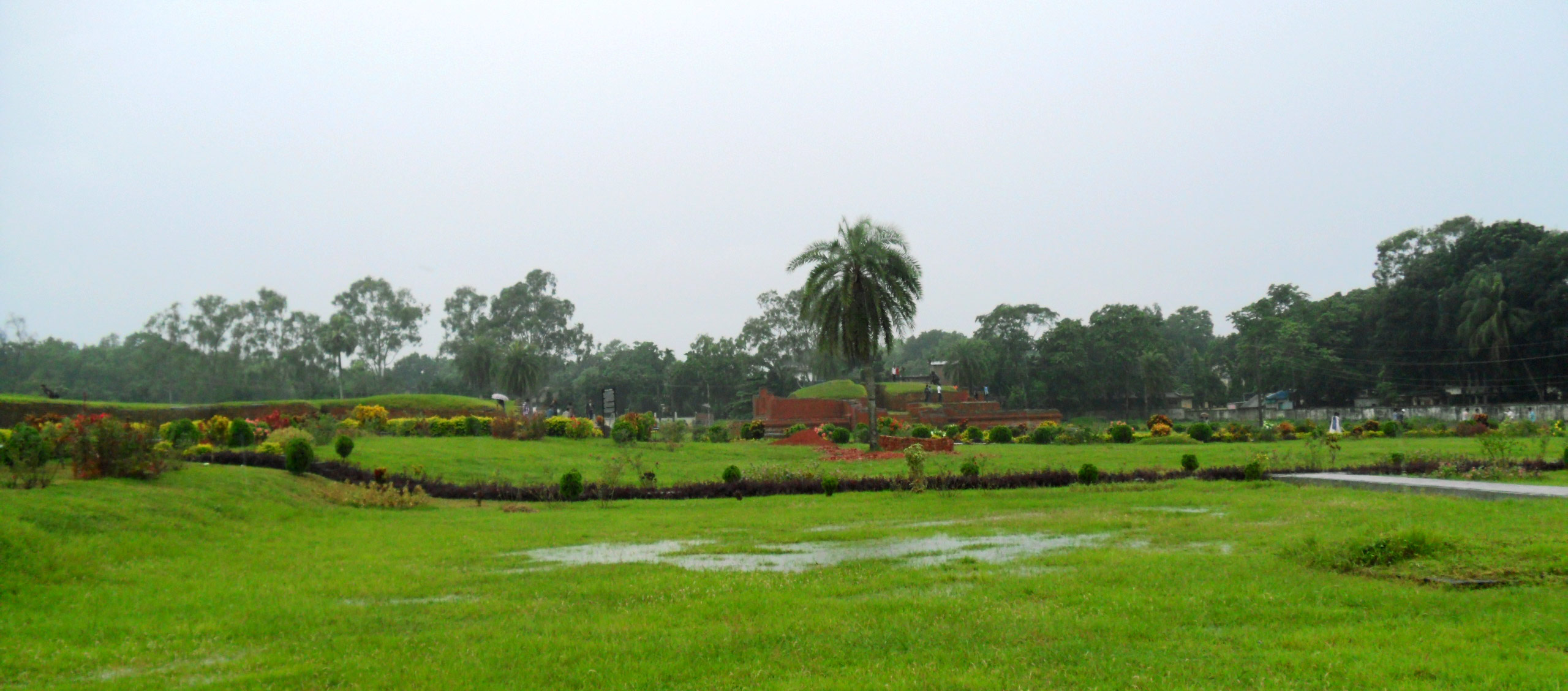 Shalbon Vihara at Comilla, Bangladesh.